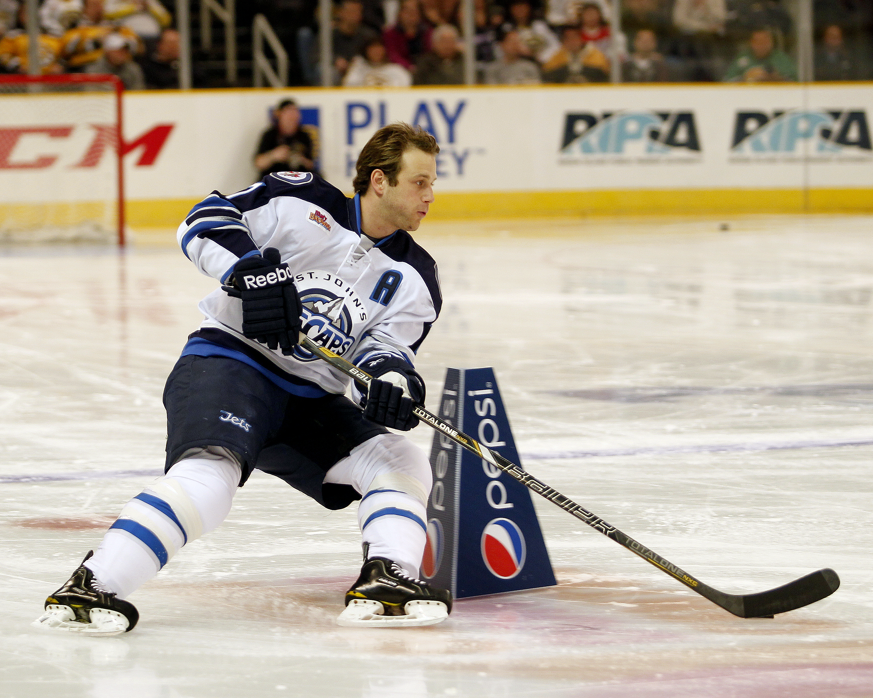 Meech American Hockey League (AHL). 2013 All-Star Skills Competition. Taken on January 27, 2013.